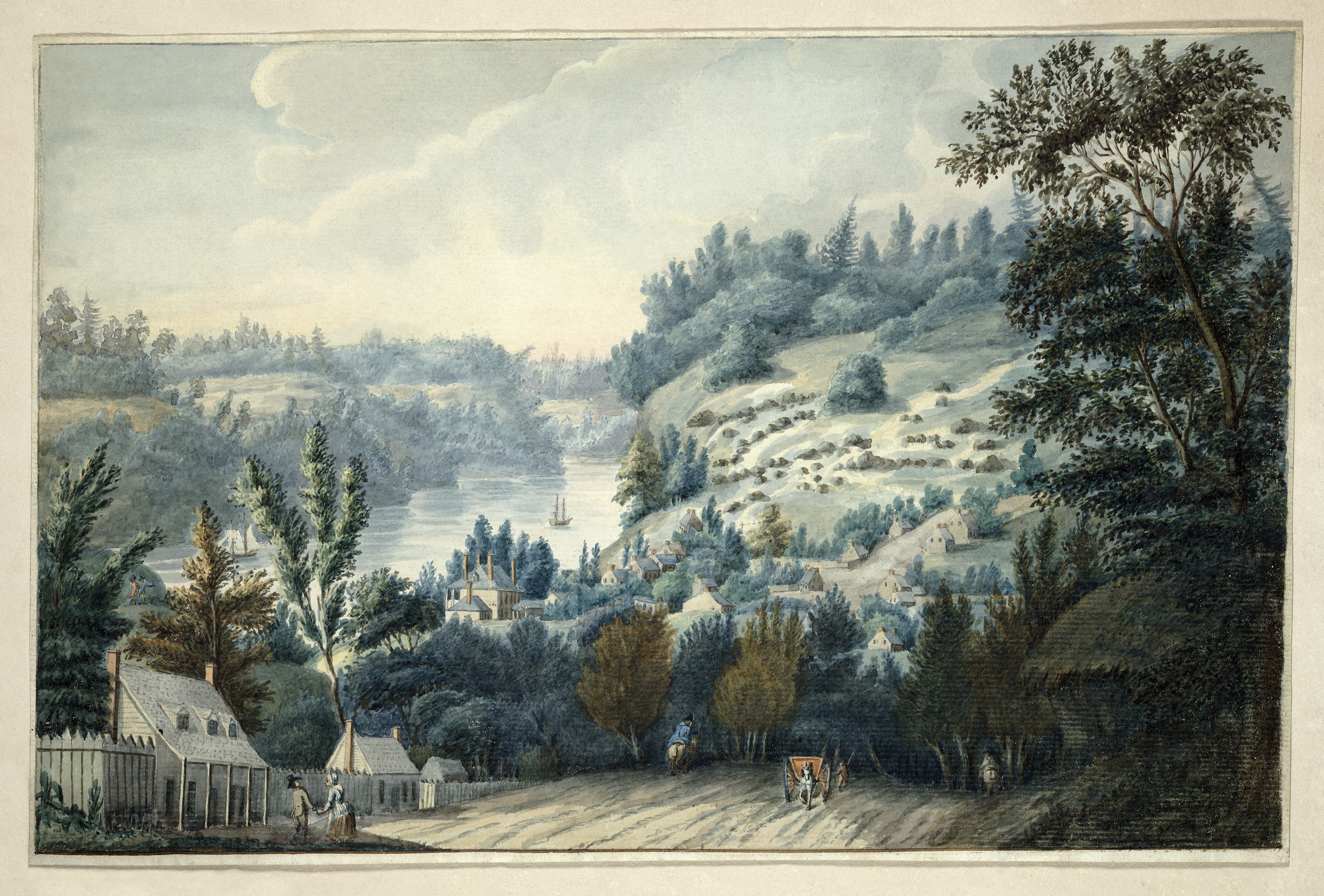 "Queenstown, Upper Canada on the Niagara" [Now known as Queenston, Ontario] by Edward Walsh. Image dates from between 1803 and 1807. This watercolour shows the village of Queenston, in the Canadian province of Ontario, known as "Upper Canada" prior to 1841. Travelers on horseback, cart, and foot traverse the wide dirt road, while houses are near the shore of the Niagara River. Queenston is just north of Niagara Falls and the site of the the battle of Queenston Heights on October 13, 1812, in the War of 1812, when the Canadians and British defeated the American forces that invaded the town. Edward Walsh was a surgeon to the 49th Regiment and served in Canada from 1803-1807.